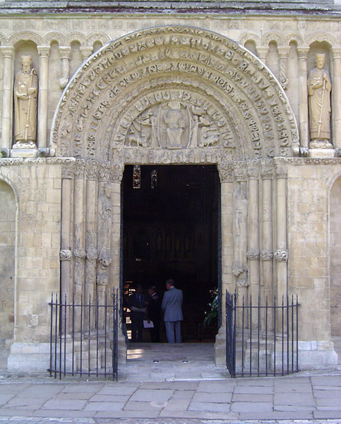 Description at en.wiki:Main doorway of Rochester Cathedral, Kent. Image by ChrisO""